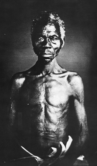 Daguerreotype of Renty (Rentry), a slave from the Congo, on a plantation in Columbia, South Carolina, made for Louis Agassiz in 1850. Agassiz commissioned this and other slave daguerrotypes to confirm his belief in the inferiority of the black race and seperate creation for the different races of man. Related image: Image:DeliaDaughterOfRentry.jpg Renty's daughter Delia